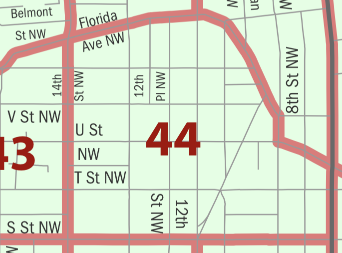 2010 census map of Tract 44, Washington, D.C.